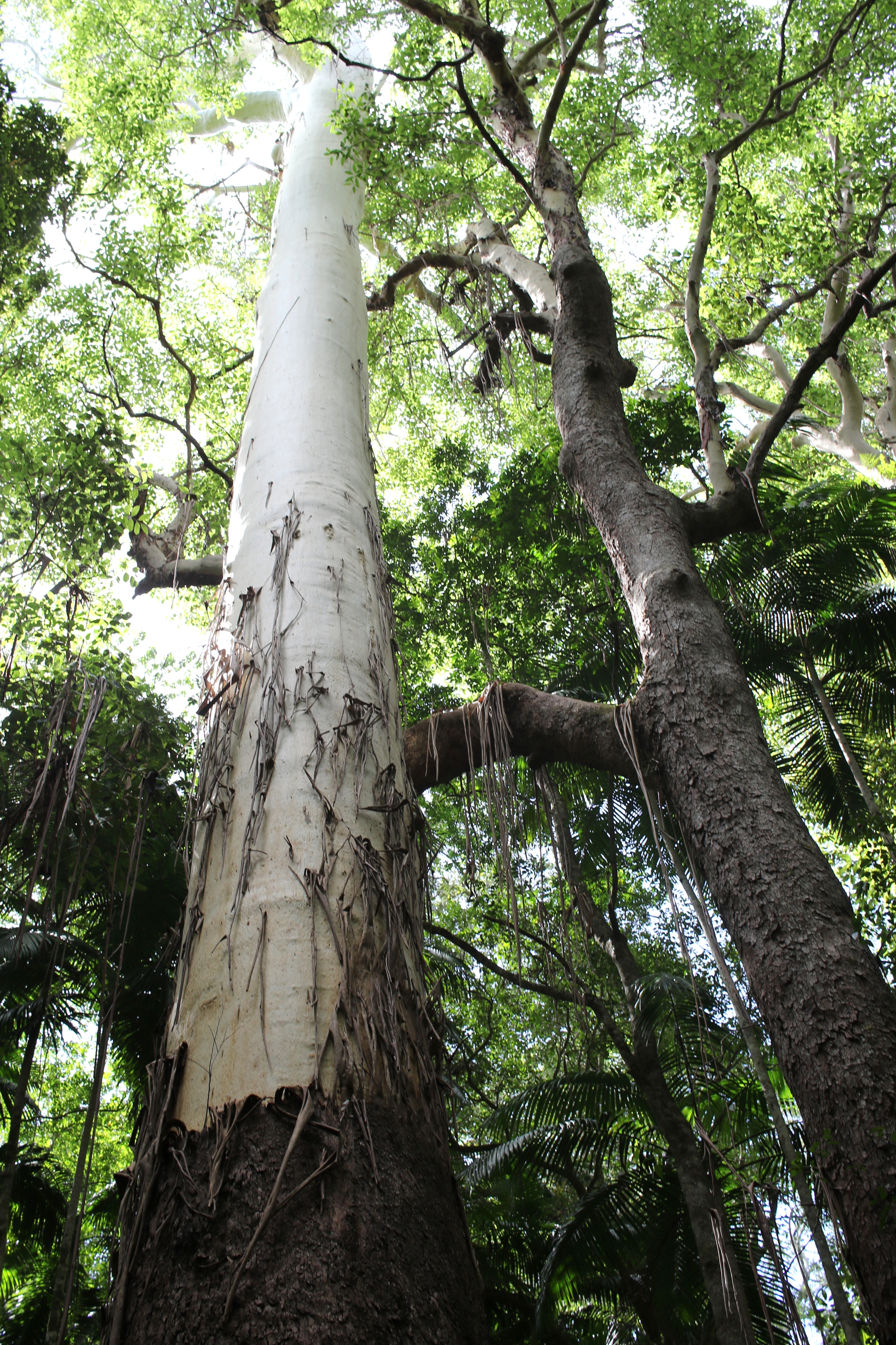 Rose Gum (Eucalyptus grandis) & Brush Box (Lophostemon confertus) at Yarriabini National Park near Way Way creek. The white tree is around 60 metres tall, the Brush Box around 35 metres tall